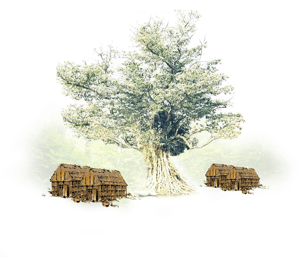 This is visualization of Delhua in past.